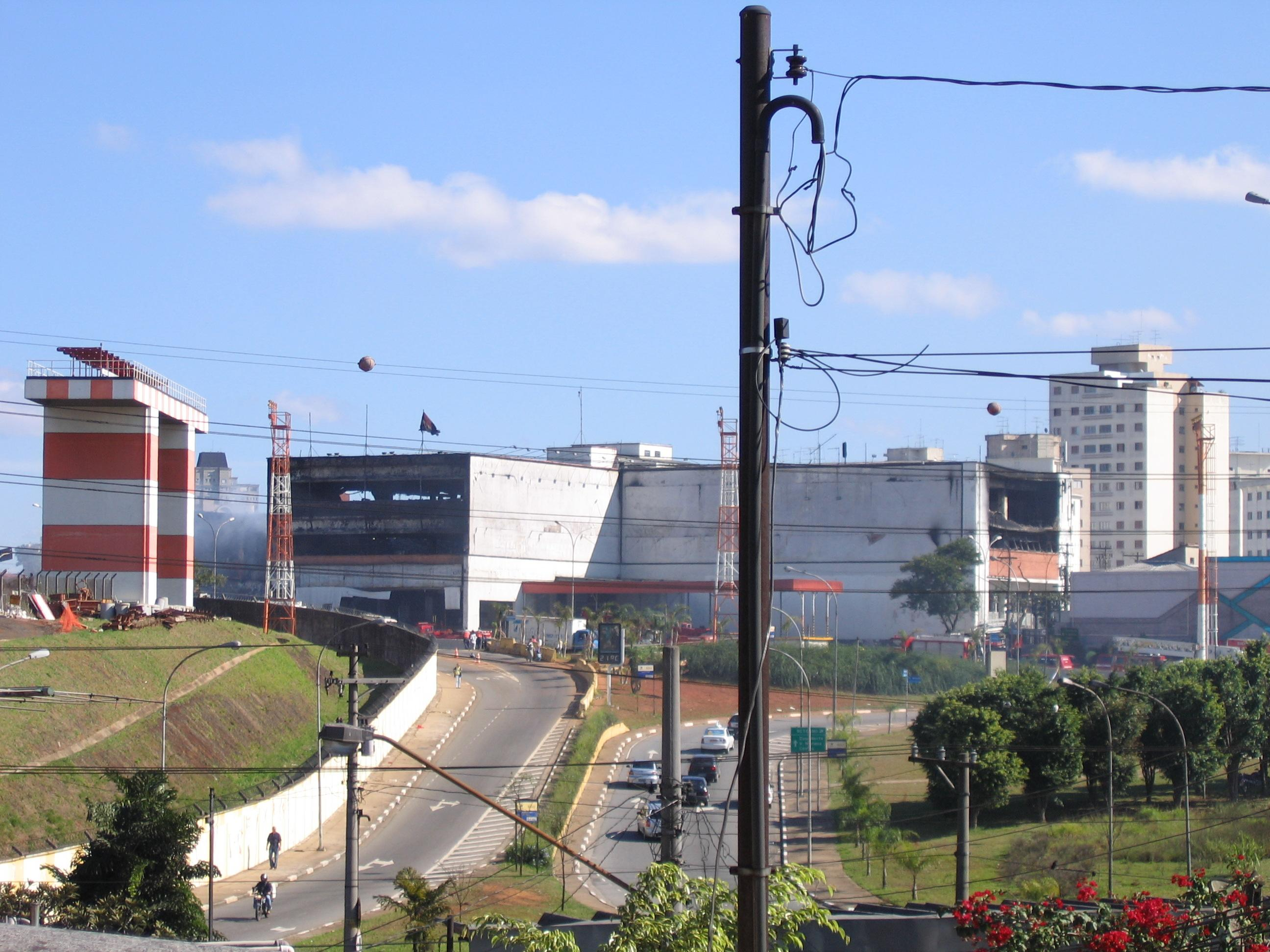 TAM Express headquarters seen two days after TAM Airlines Flight 3054 crashed into it.